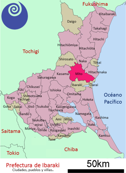 Map of Ibaraki Prefecture with municipalities.